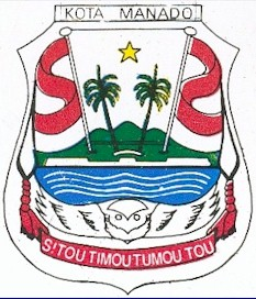 Shield of the city of Manado (Indonesia)